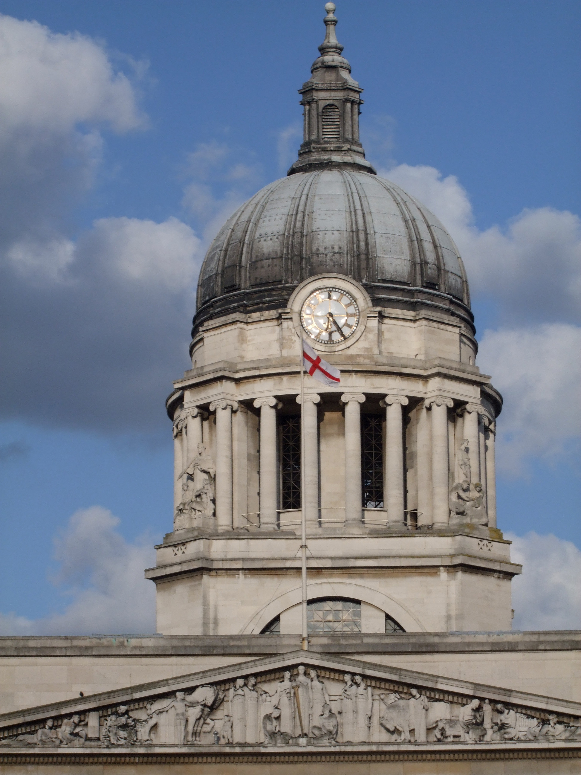 close-up, dome, Council House Nottingham